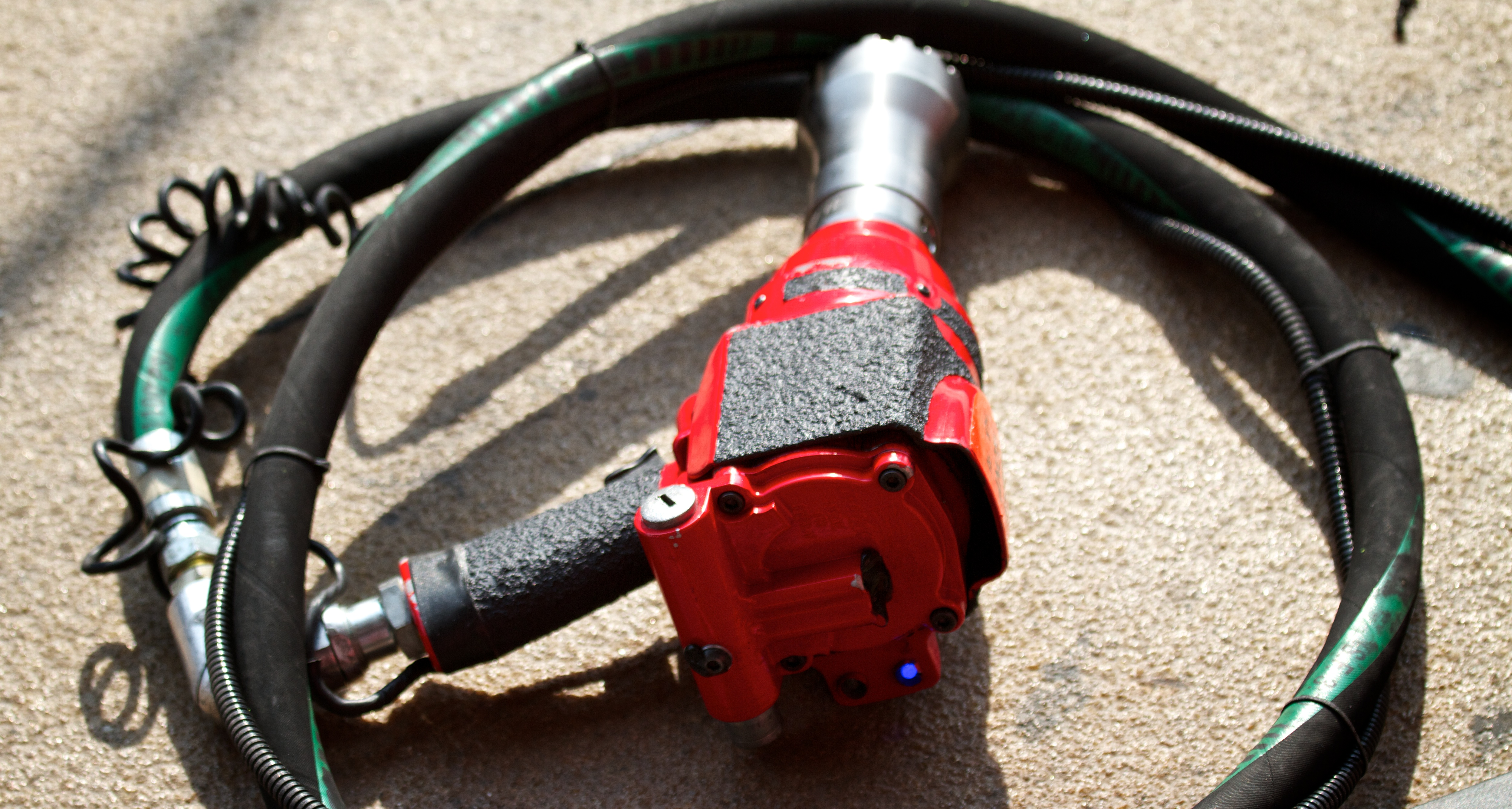 Formula One Wheel Gun